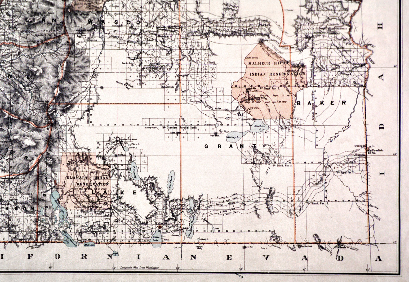 Map of the Malheur Reservation in eastern Oregon, U.S., an Indian reservation used for seven years in the 1870s until its inhabitants were moved elsewhere